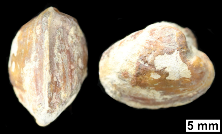 The bivalve Nuculites laphami (Cleland, 1911); Middle Devonian; Milwaukee Formation; Lindwurm Member; Milwaukee County, Wisconsin; MPM P28164; collected by K.C. Gass; photograph originally published in K.C. Gass, J. Kluessendorf, D.G. Mikulic, and C.E. Brett, 2019. Fossils of the Milwaukee Formation: A Diverse Middle Devonian Biota from Wisconsin, USA. Siri Scientific Press, Manchester, UK.